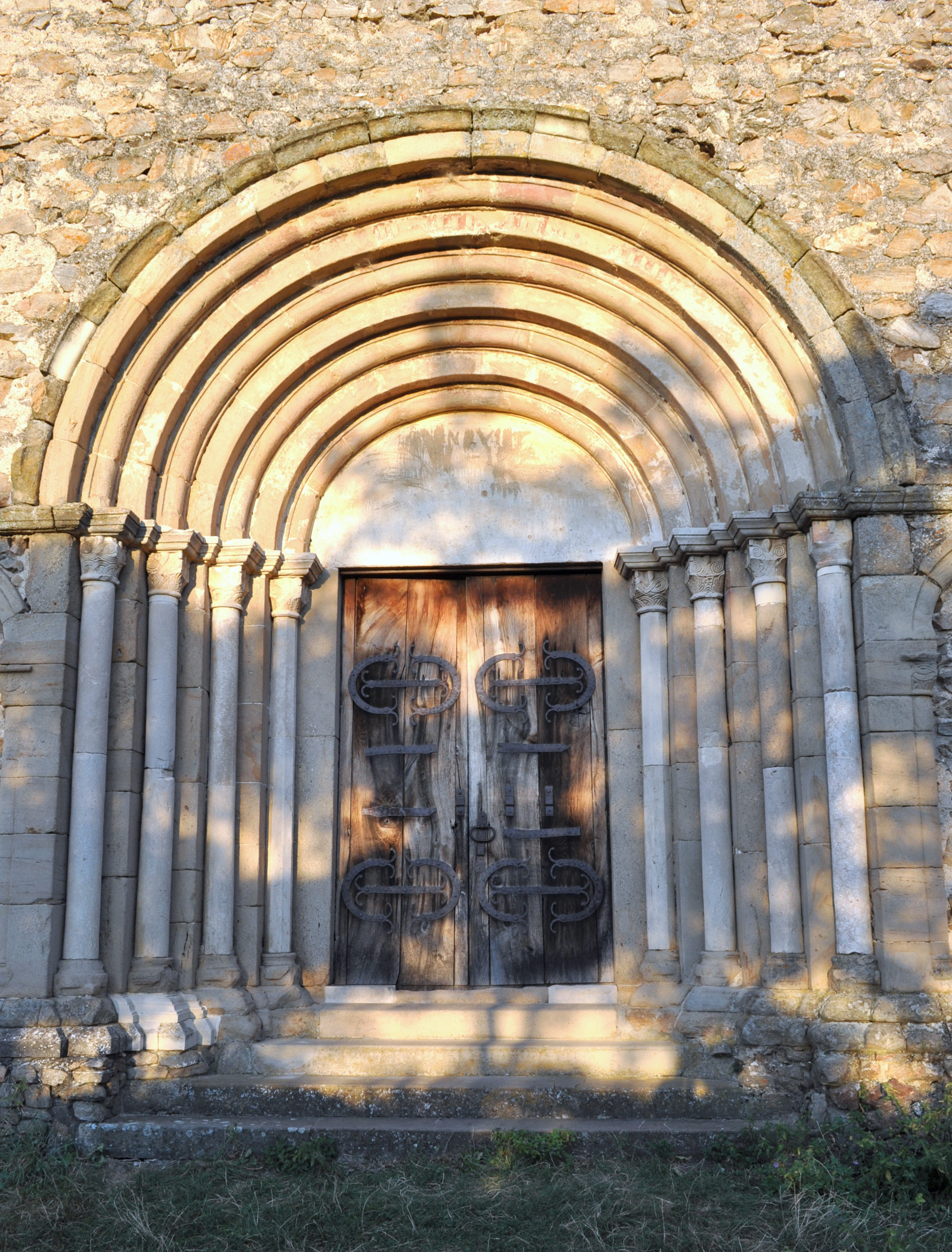 The Ensemble of The ”Saint Michael” Lutheran church in CisnădioaraRomână: Ansamblul bisericii evanghelice „Sf.Mihail” din Cisnădioara